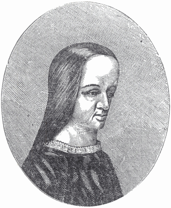 This engraving, "purported to be psychometrically drawn by one Milleson, of New York" in 1871, was believed by many nineteenth century Shakers to be a portrait of Shaker founder Ann Lee (1736–1784). See Stephen J. Stein, The Shaker Experience in America: A History of the United Society of Believers (New Haven and London: Yale University Press, 1992), 232-33.